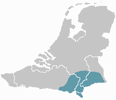 Map of the distribution of the dialect Limburgish in Belgium , The Netherlands and Germany.